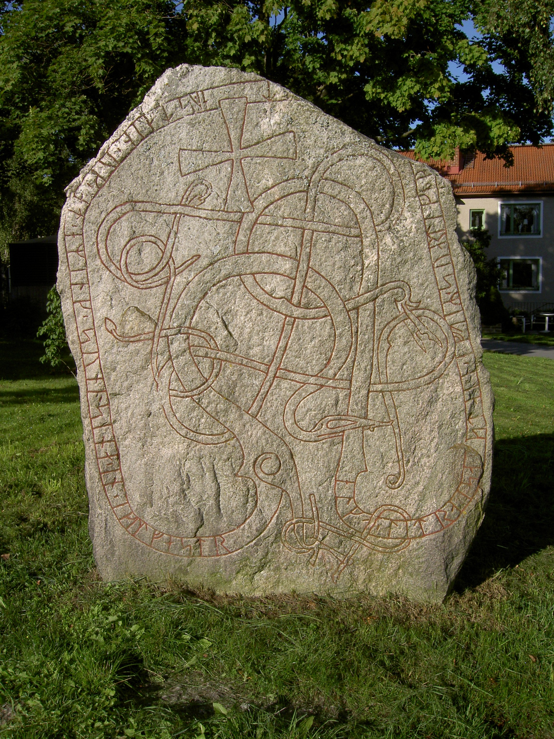 Runestone U Fv1953;263 from Helenelund, now located at Kummelby church.